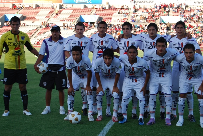 Foto No oficial de Guerreros